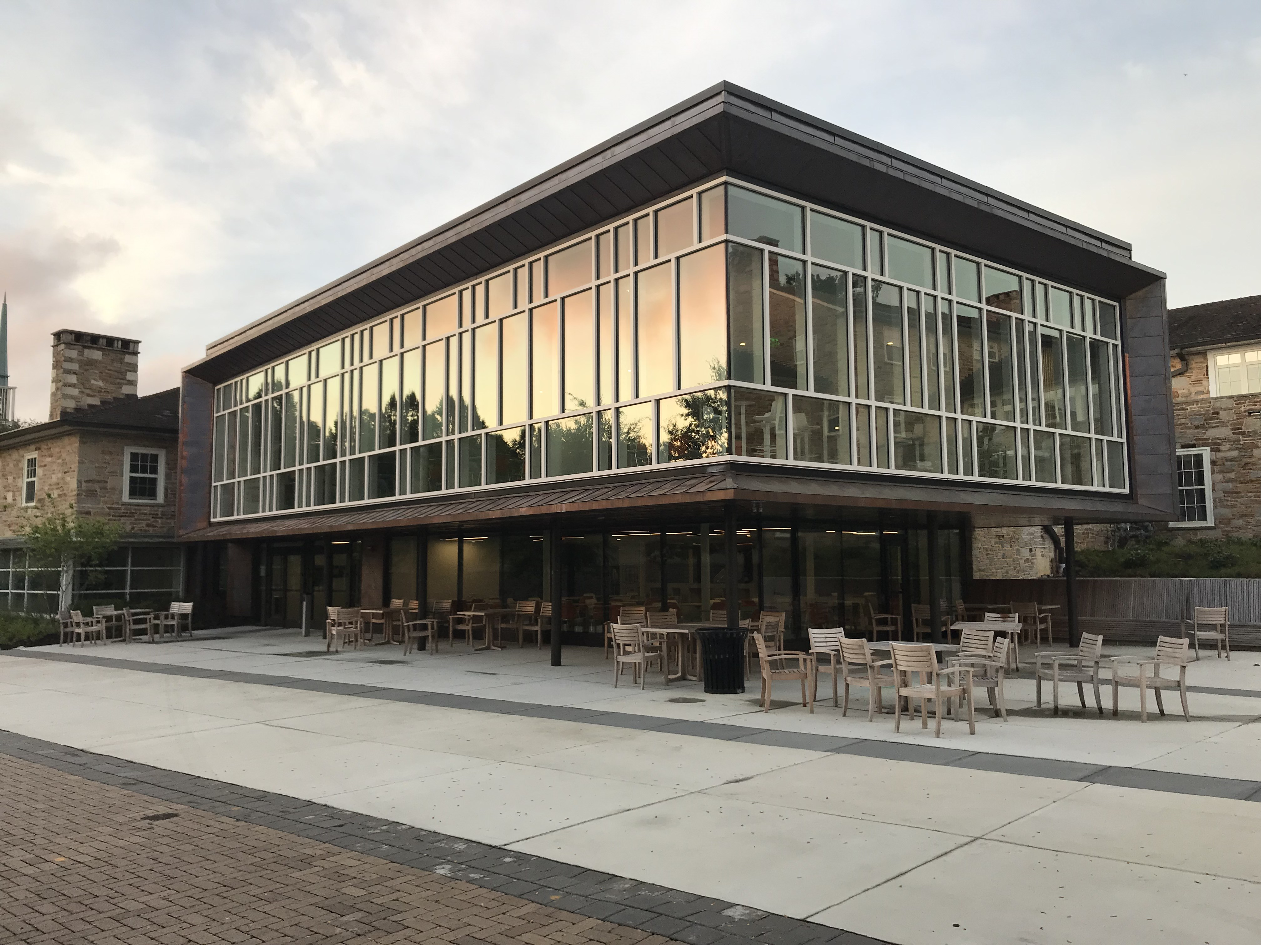 The Mary Fisher Dining Center on Van Meter Road